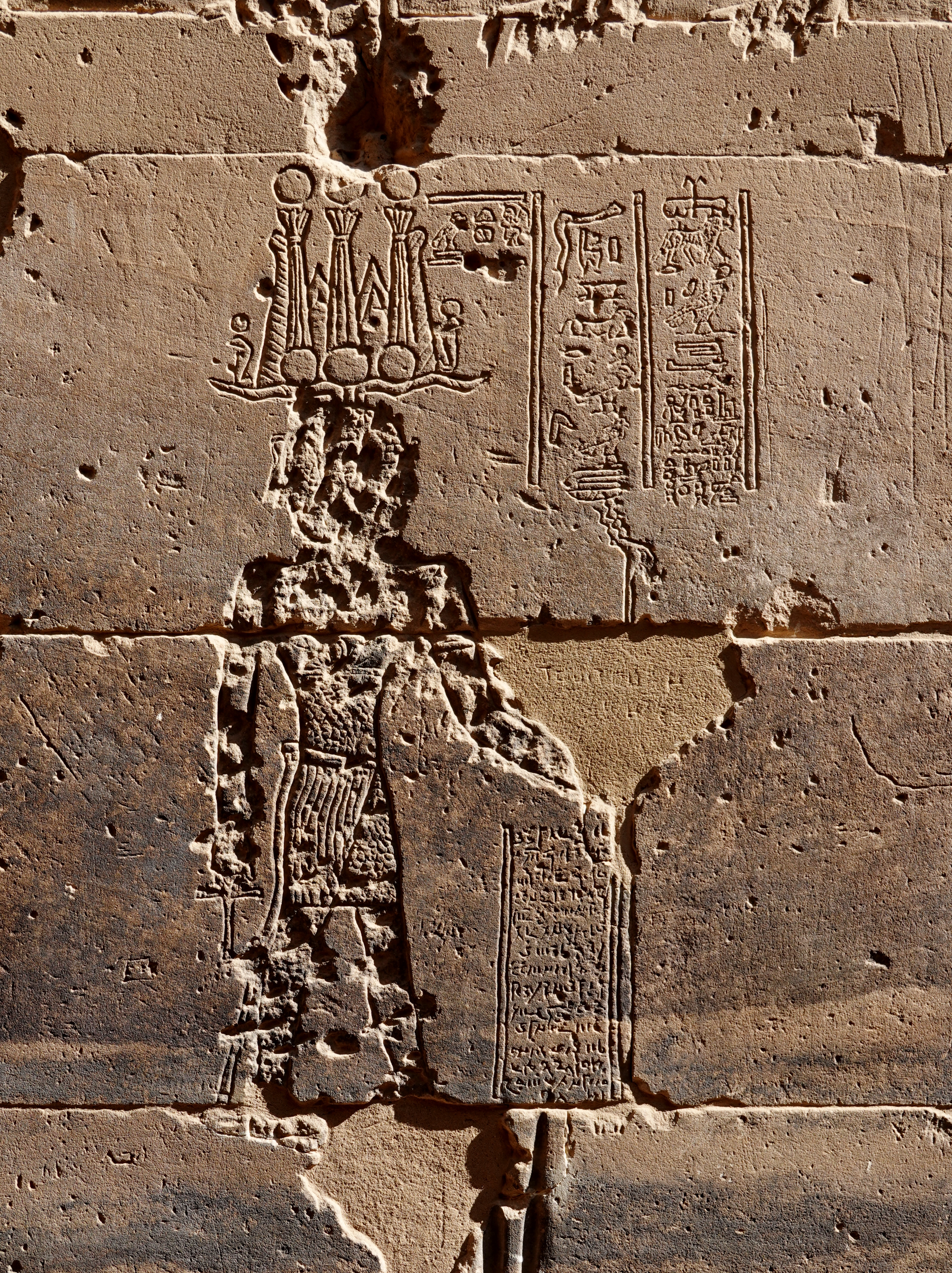 A crude drawing of the god Mandulis from Hadrian's Gate at Philae, accompanied by a hieroglyphic inscription (above right) and a demotic inscription (lower right). The hieroglyphic text is the last one written in ancient times, and its author had a weak grasp of the writing system. The demotic inscription reads: "I, Nesmeterakhem, the Scribe of the House of Writings (?) of Isis, son of Nesmeterpanakhet the Second Priest of Isis, and his mother Eseweret, I performed work on this figure of Mandulis for all time, because he is fair of face towards me. Today, the Birthday of Osiris, his dedication feast, year 110 [of the reign of Diocletian]." The date is thus 24 August, 394 AD/CE. The hieroglyphic text says: "Before Mandulis son of Horus, by the hand of Nesmeterakhem, son of Nesmeter, the Second Priest of Isis, for all time and eternity. Words spoken by Mandulis, Lord of the Abaton, great god." (Source: Richard Parkinson, Cracking Codes: The Rosetta Stone and Decipherment (1999), p. 178.)